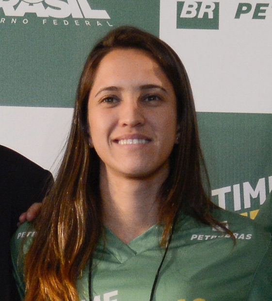 Iris Sing - crop from picture with Iris Sing, Vanessa Cozzi, Amanda Simeao 2016 - Rio de Janeiro